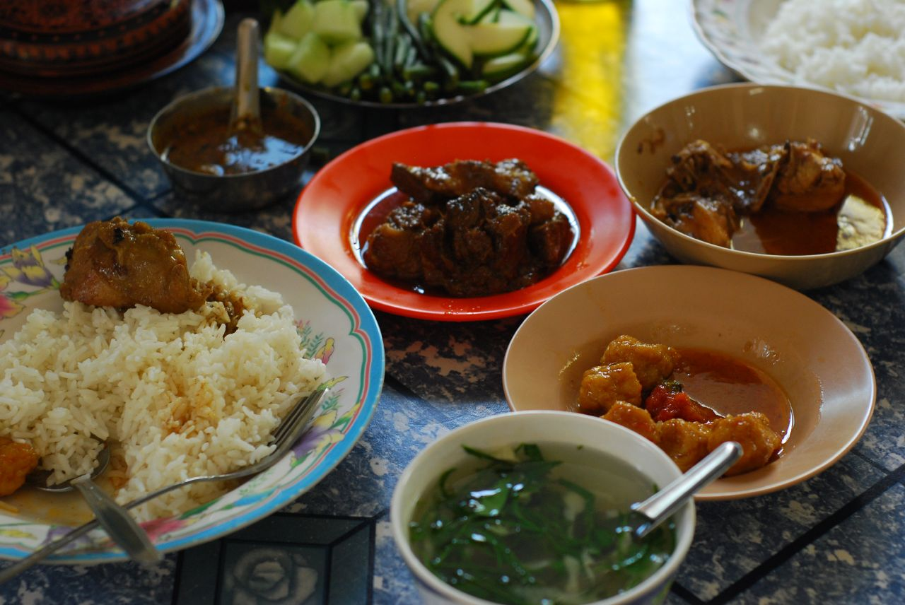 Traditional Burmese curry set with soup, rice, vegetables, fish sauce (condiments) and the curries.